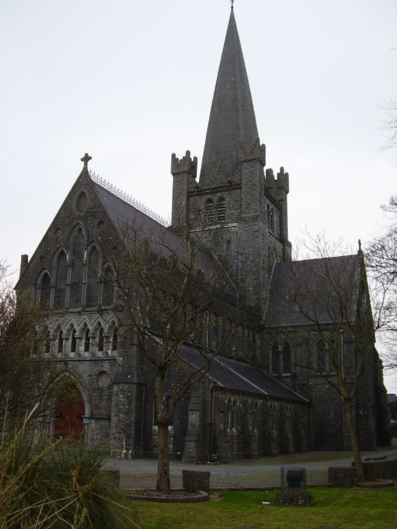 Exterior view of St. Mary's Cathedral from the south